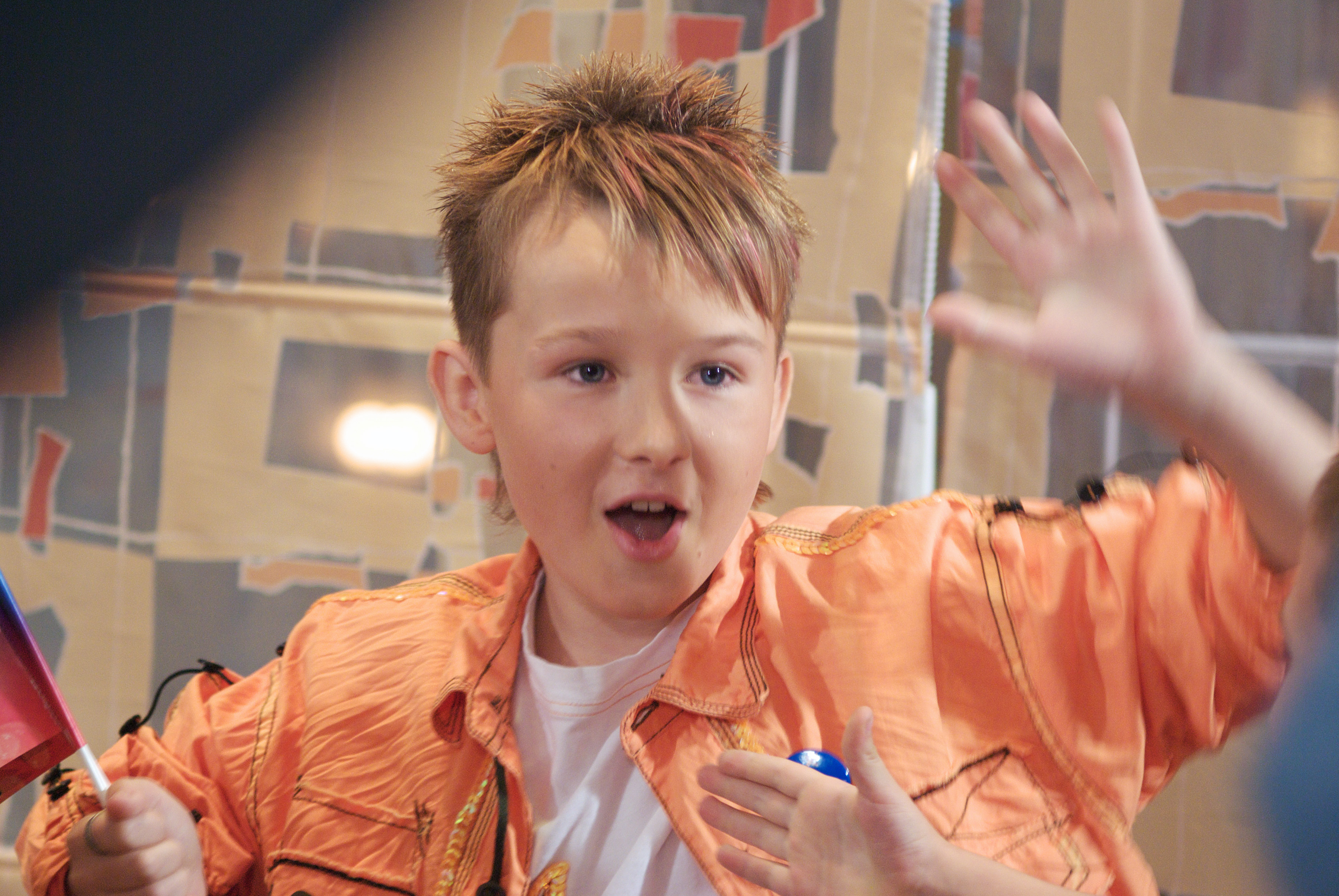 Alexey Zhigalkovich